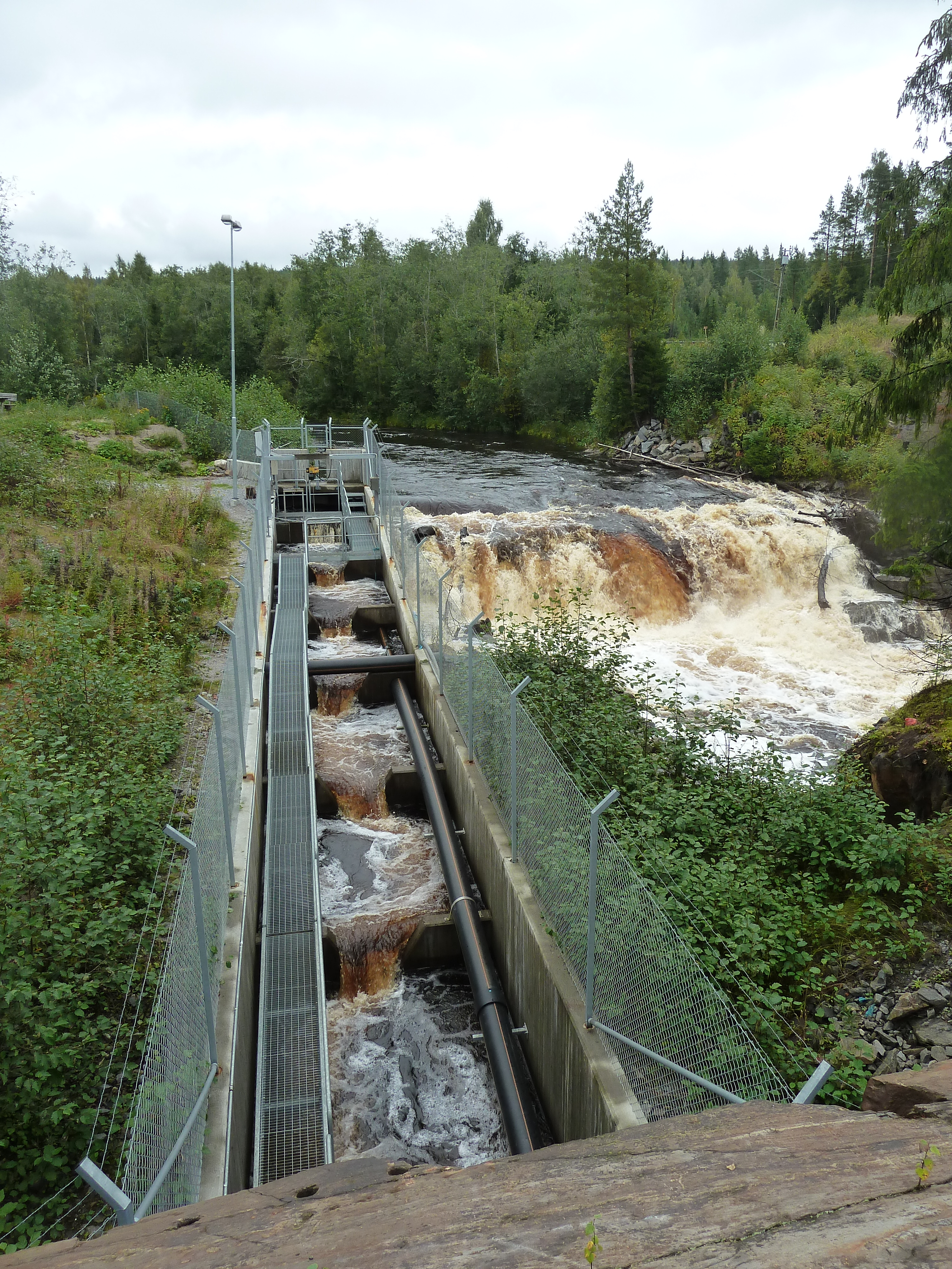 Fish ladder at Sågfallet near Gottne, Ångermanland, Sweden